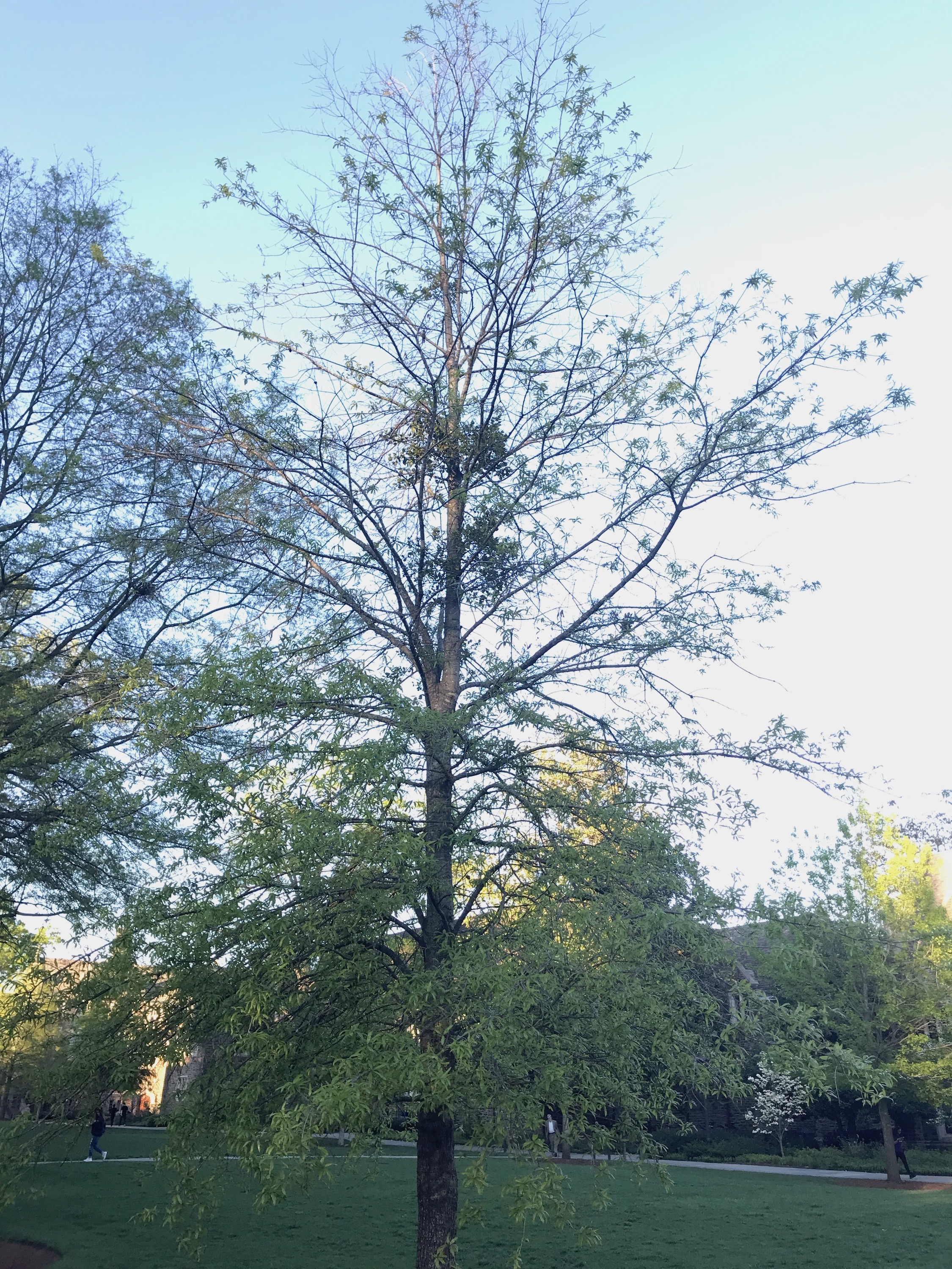 Phoradendron sp. in an ornamental oak in Durham, NC, showing the decreased leaf budding in the distal branches beyond where the parasite is attached.